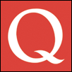 This is the logo of the music magazine, Q, and television channel, Q TV.